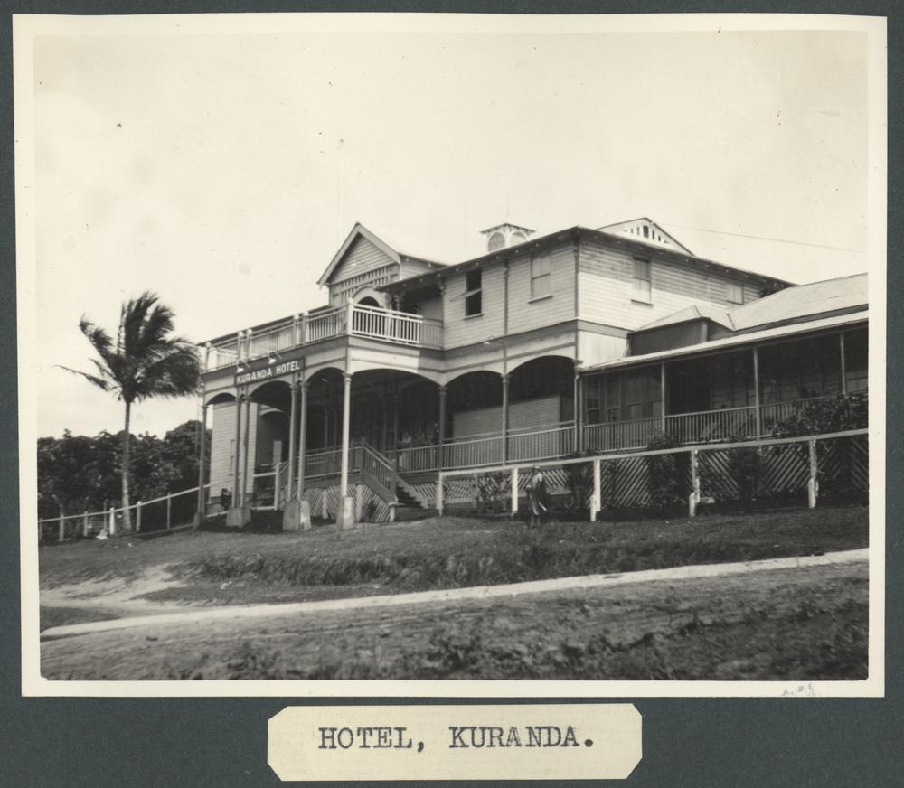 Hotel at Kuranda north of Cairns, ca. 1928. Kuranda Hotel and guesthouse in the style of north Queensland archtecture.